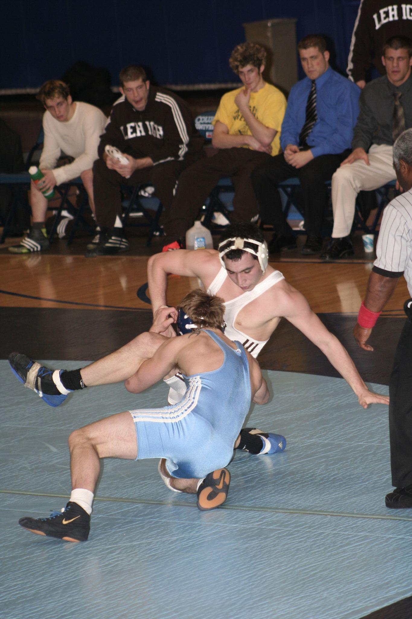 Two college students wrestling (collegiate, scholastic, or folkstyle) in the United States. Originally uploaded by Wikiman86 on the English Wikipedia project at